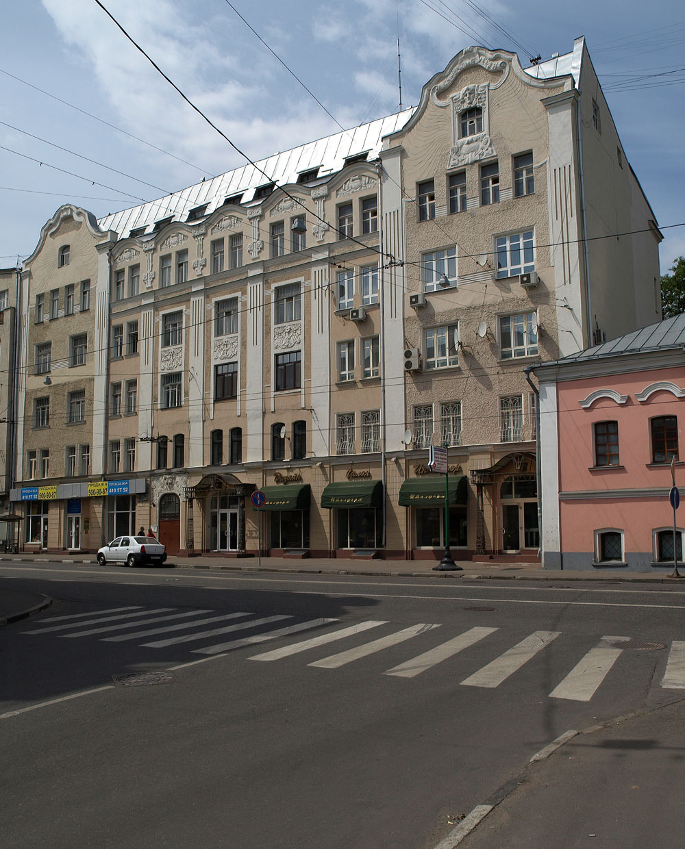 Art Nouveau building by Vasily Schaub, 1902, Staraya Basmannaya 15, Moscow